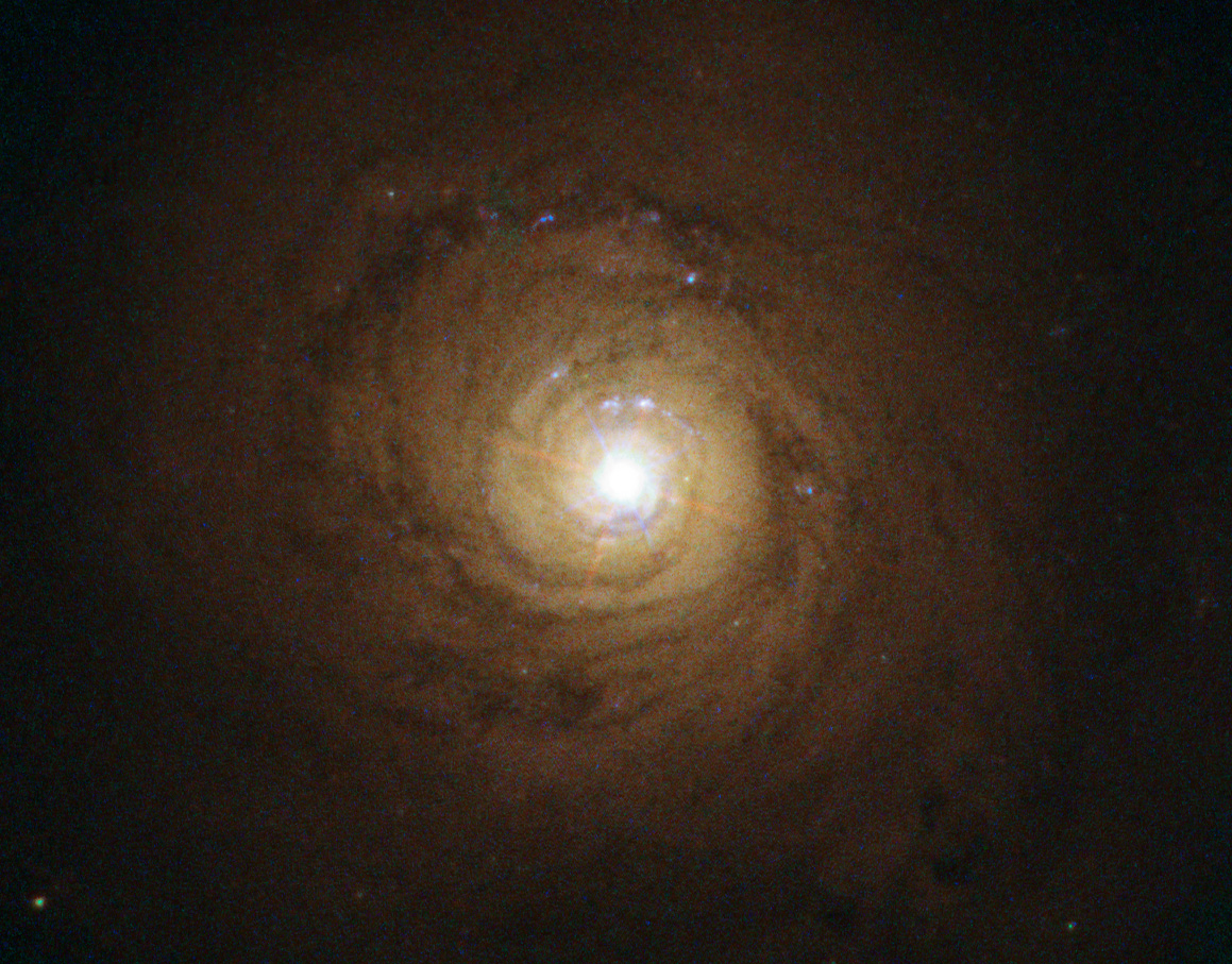 This is the galaxy known as NGC 5548. At its heart, though not visible here, is a supermassive black hole behaving in a strange and unexpected manner. Researchers detected a clumpy gas stream flowing quickly outwards and blocking 90 percent of the X-rays emitted by the black hole. This activity could provide insights into how supermassive black holes interact with their host galaxies.